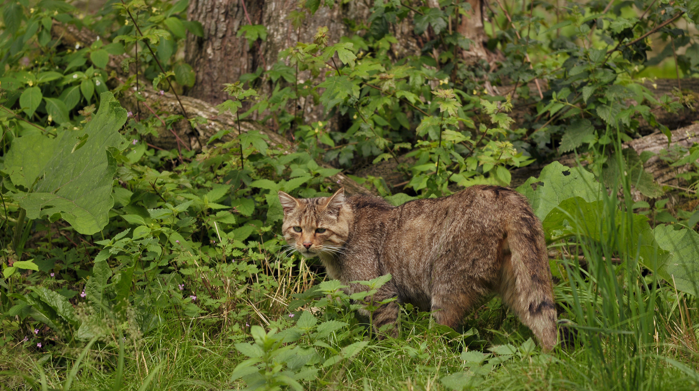 European Wildcat in her environment. The image was taken in the Wisentgehege Springe game park, near Springe, Hanover, Germany. The wildcat protects itself with two strategies: camouflage her body and defending their territory. The camouflage is done by brown color and vertical stripes on their fur and her face and by hiding behind plants and shrubs. To defend their territory, the wildcat guarding the lowest access to their territory. In their area there is a big tree. The fur of the wildcat has the same color and the same pattern as the bark of the tree. The wildcat lives on that tree, there it is protected through the camouflage of the coat.